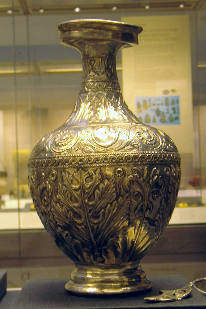 Silver Vase, Water Newton Treasure, 4th Century AD, British Museum